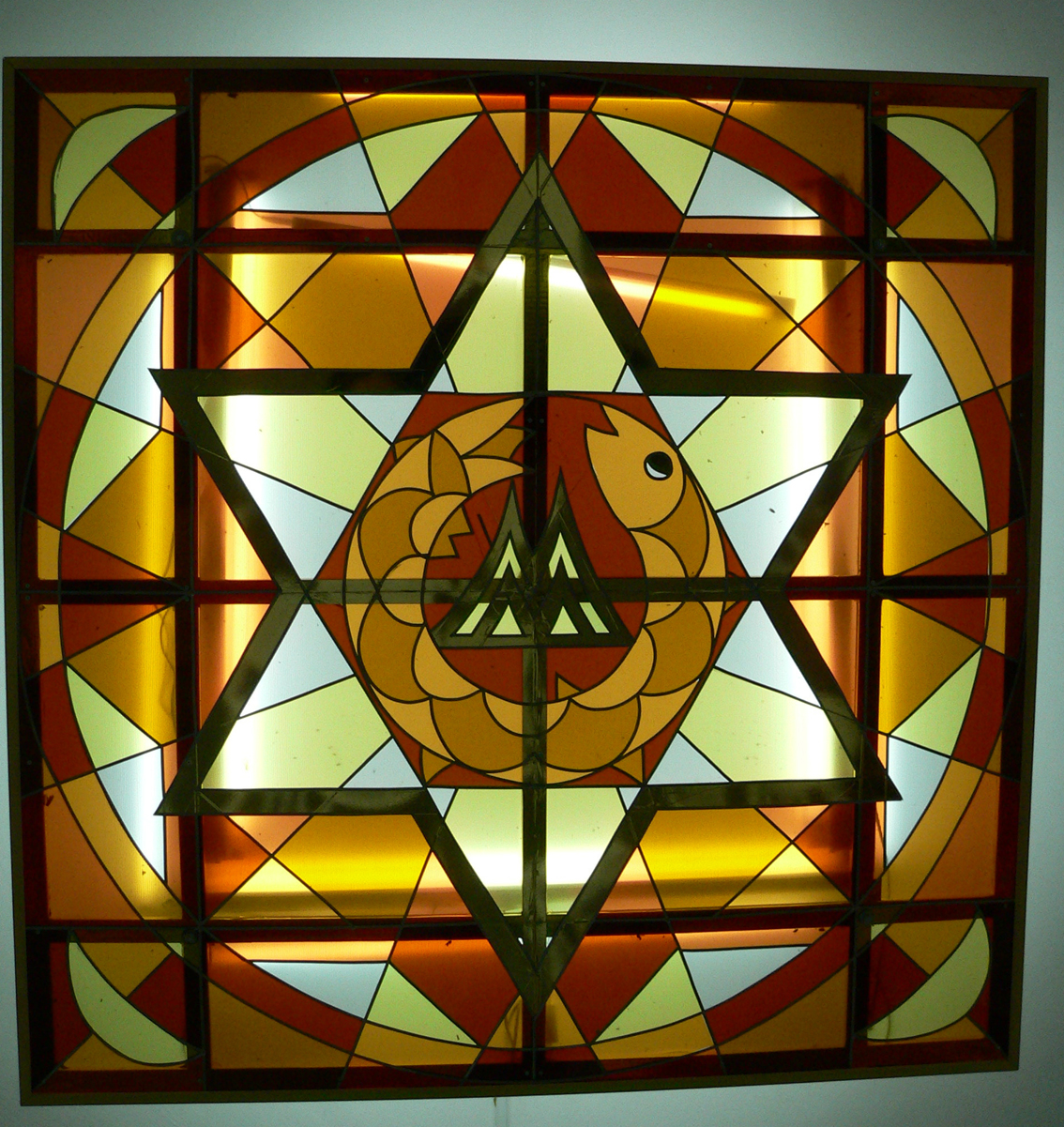 Internal design of synagogue by Yachilevich, lamp